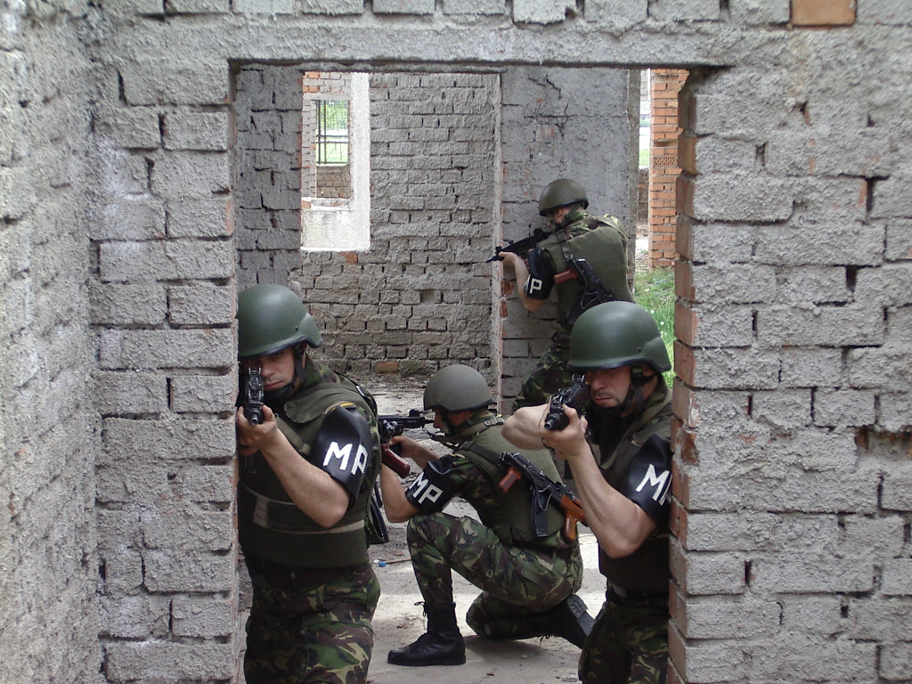 The 265th Military Police Battalion operating in Iraq.